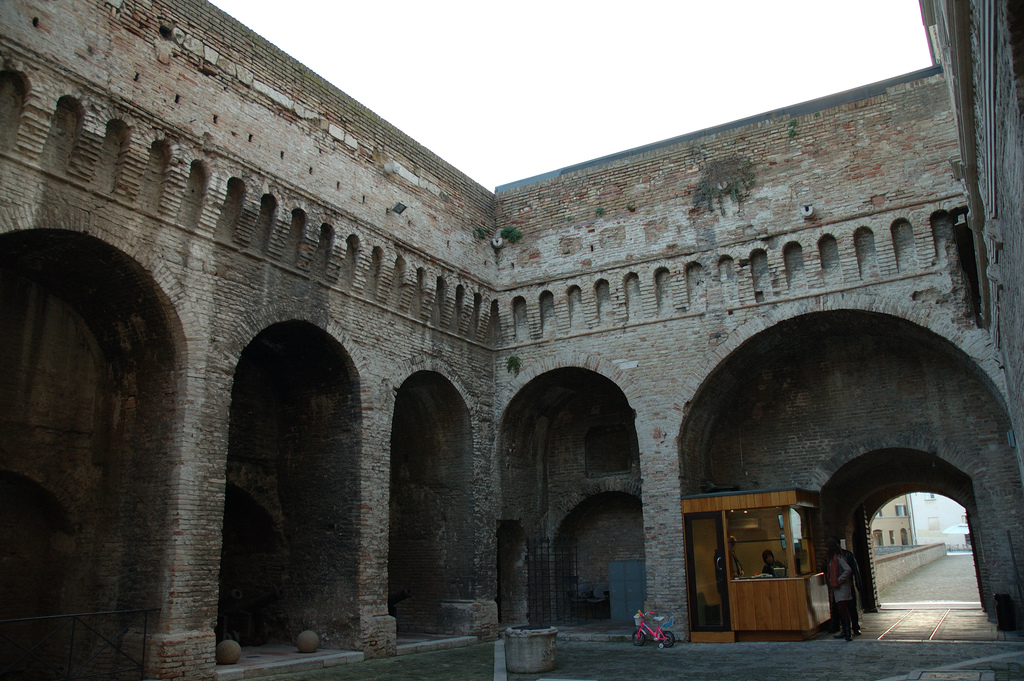 Senigallia, Marche,Italia